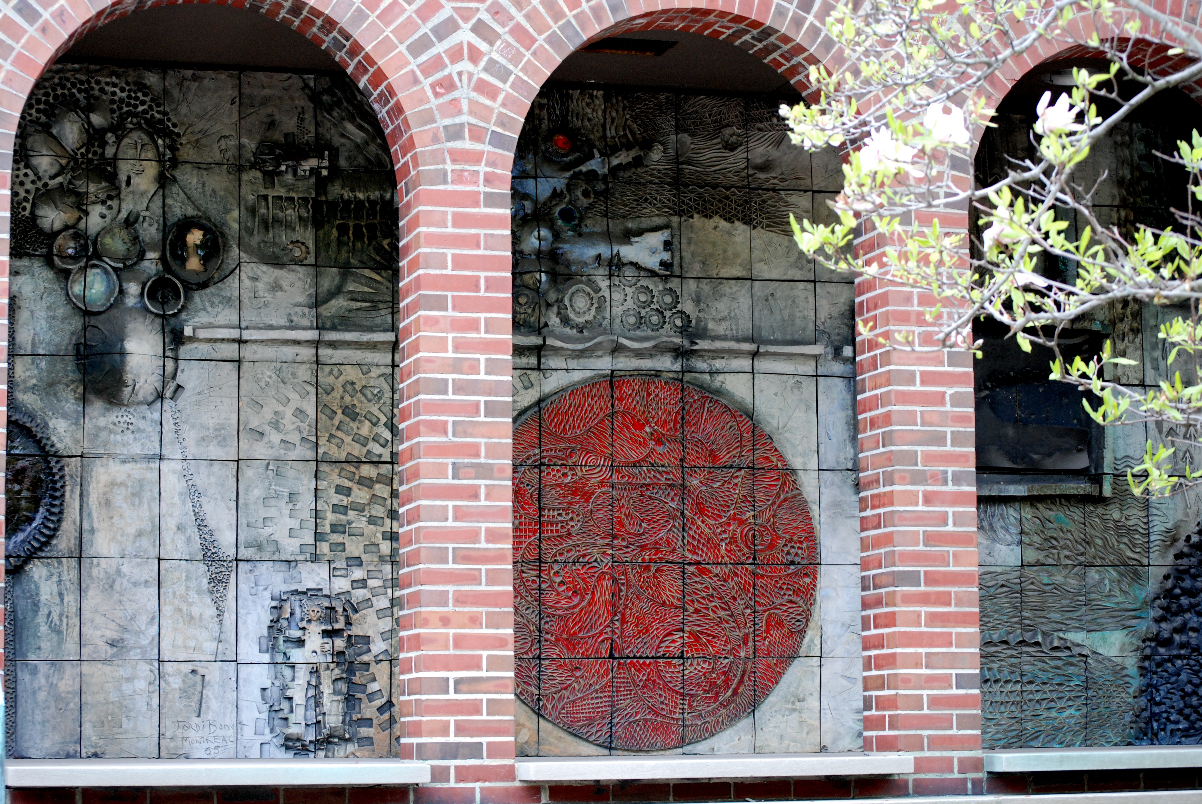 A photograph of another part of the front of the Orthogenic School, showing the mural created for the school by Jordi Bonet.